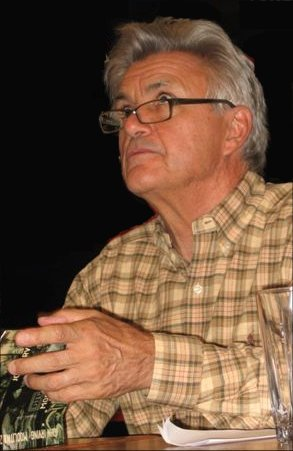 John Irving (b. 1942), American writer